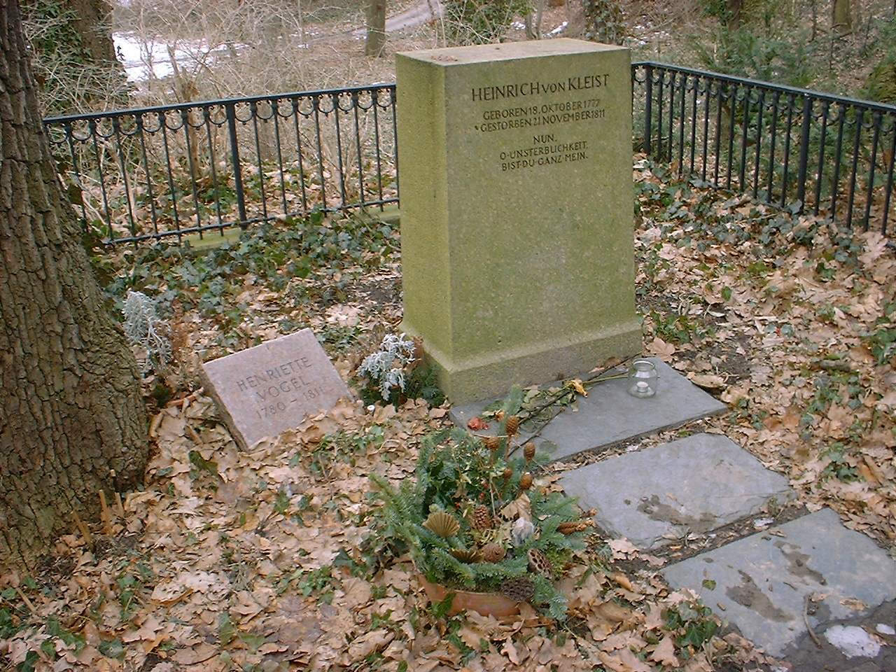 Grave of Heinrich von Kleist in Berlin-Wannsee, Germany